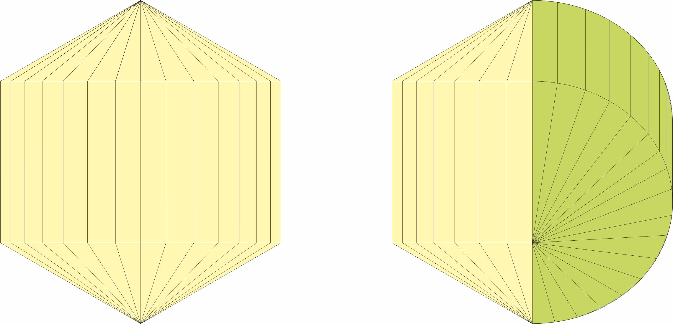 Two views of the prime hexa-sphericon. The right view shows the two congruent halves of the solid joined at an offset angle.